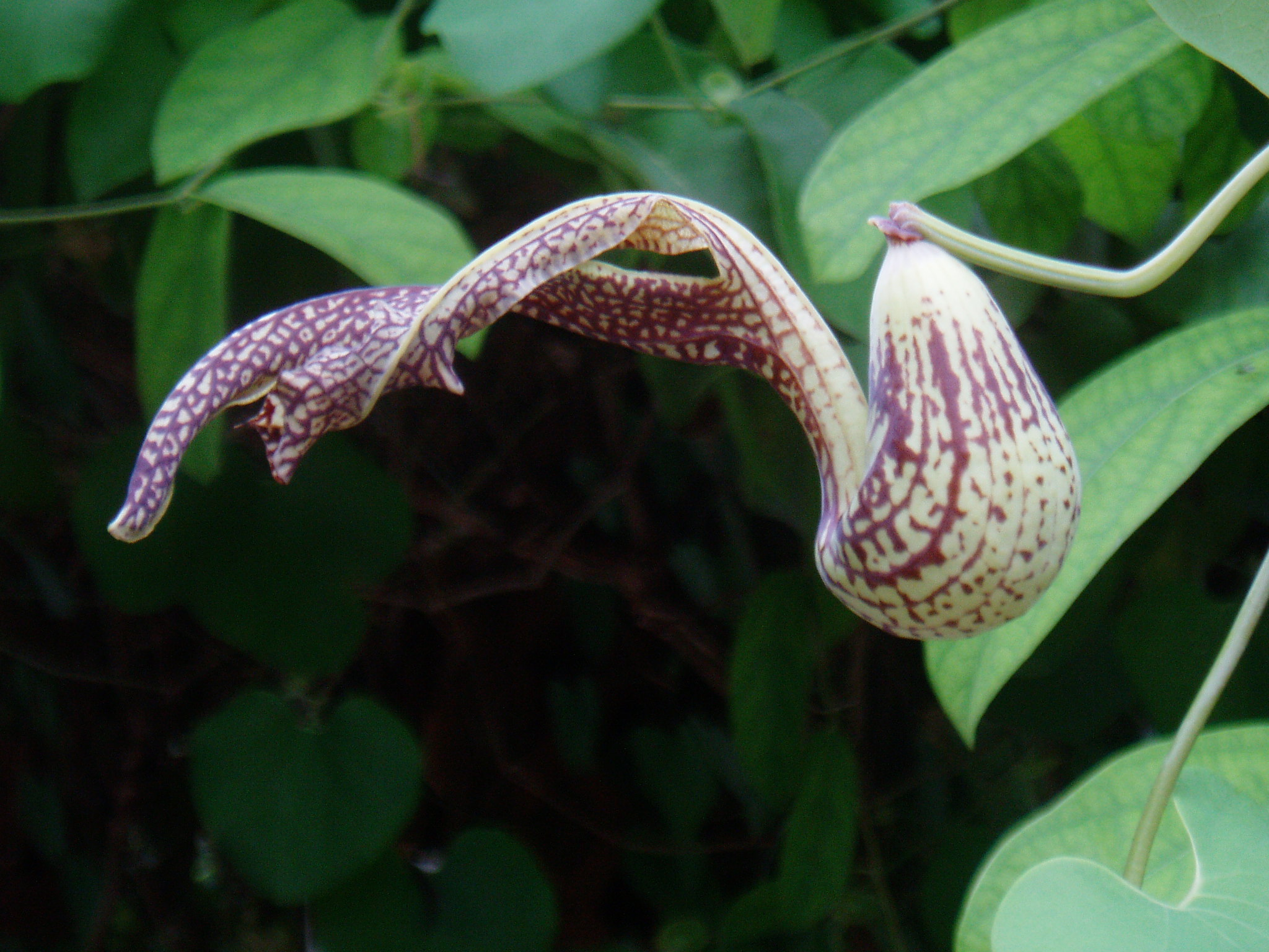 Image taken at Butterfly World Dutchman's pipe Aristolochia gibertii